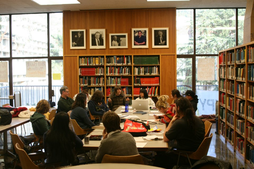 Members of Occupy Cal working on negotiations with administration.